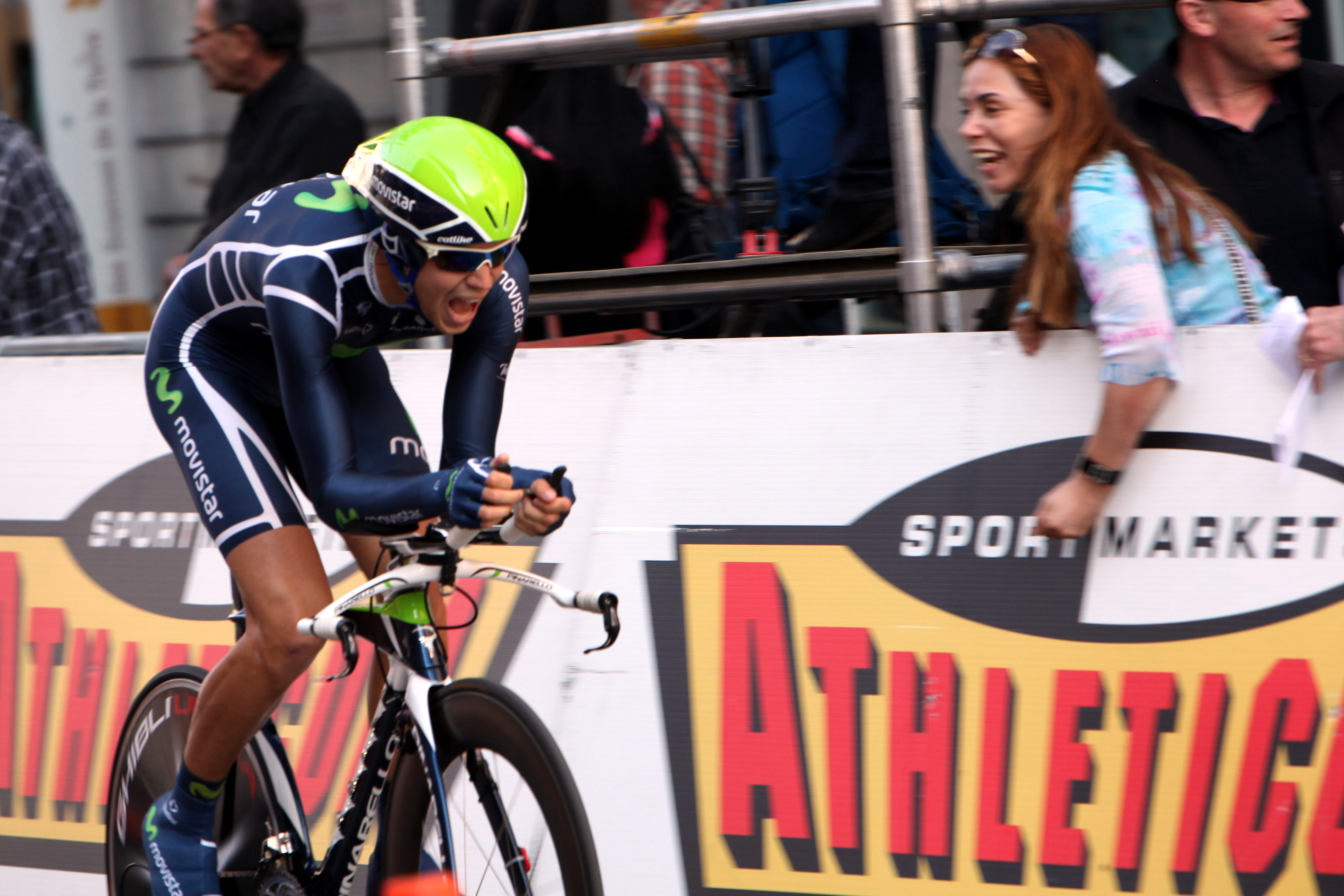 Jesus Herrada at the prologue of the Tour de Romandie 2011